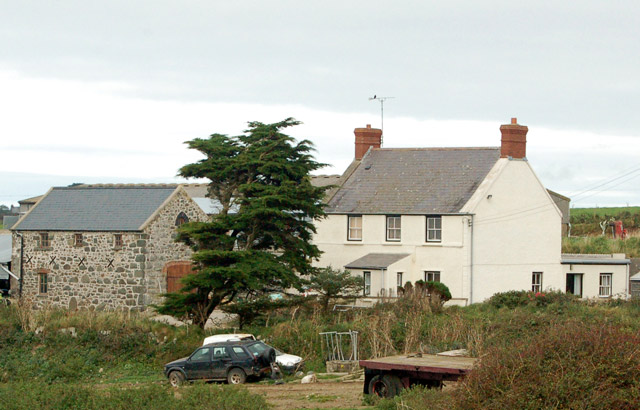 The farmhouse at St Elvis Farm, east of Solva